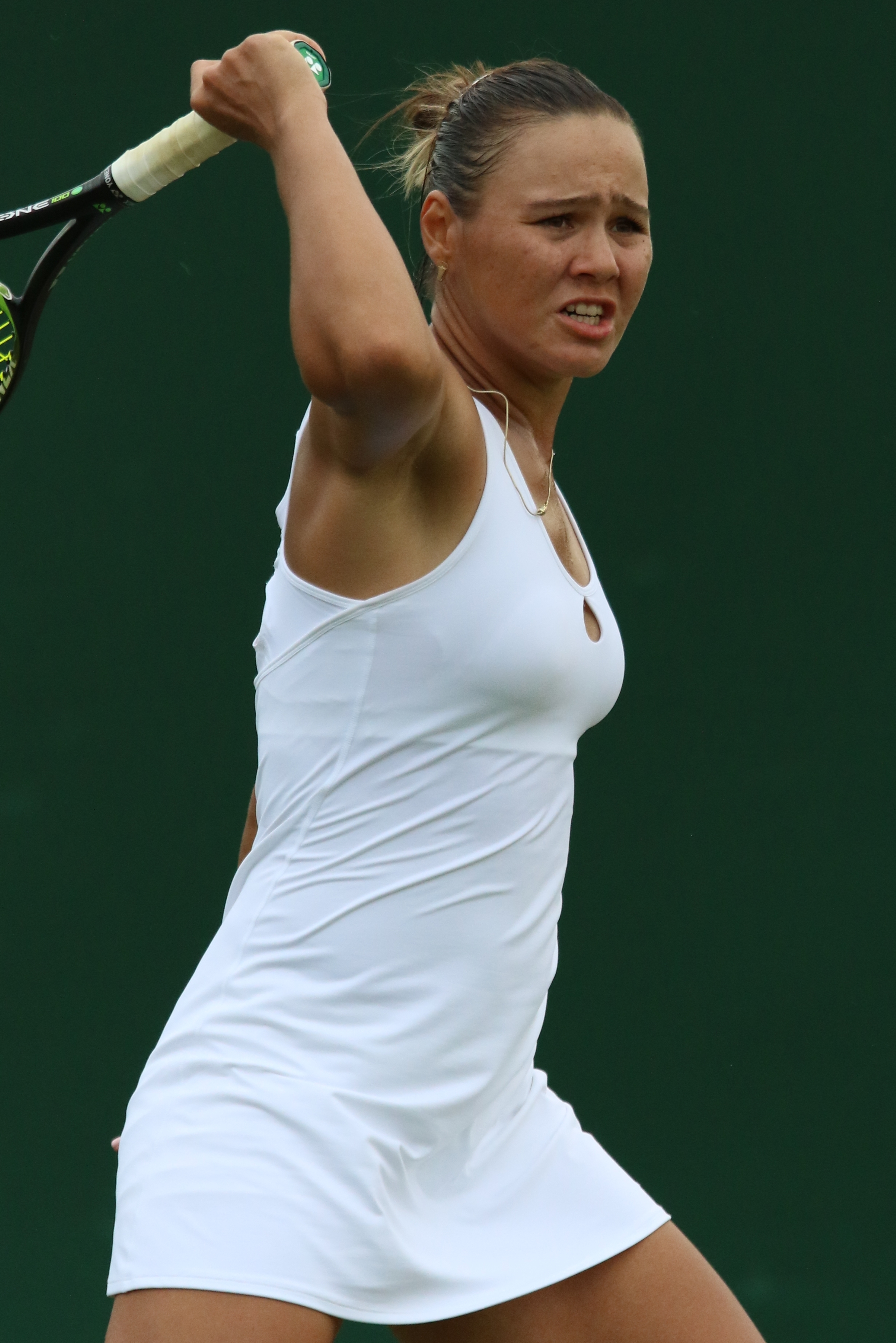 2019 Wimbledon Qualifying Tournament.